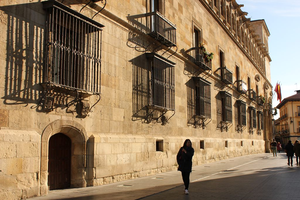 Palacio de Guzman. S..XVI Palace was built by Enrique Gil de Hontañón. It was declared a historical monument in 1963. Today it houses the deputation of Leon.